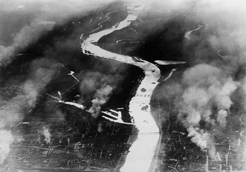 Warsaw during World War II: View South from German plane flying over Warsaw.